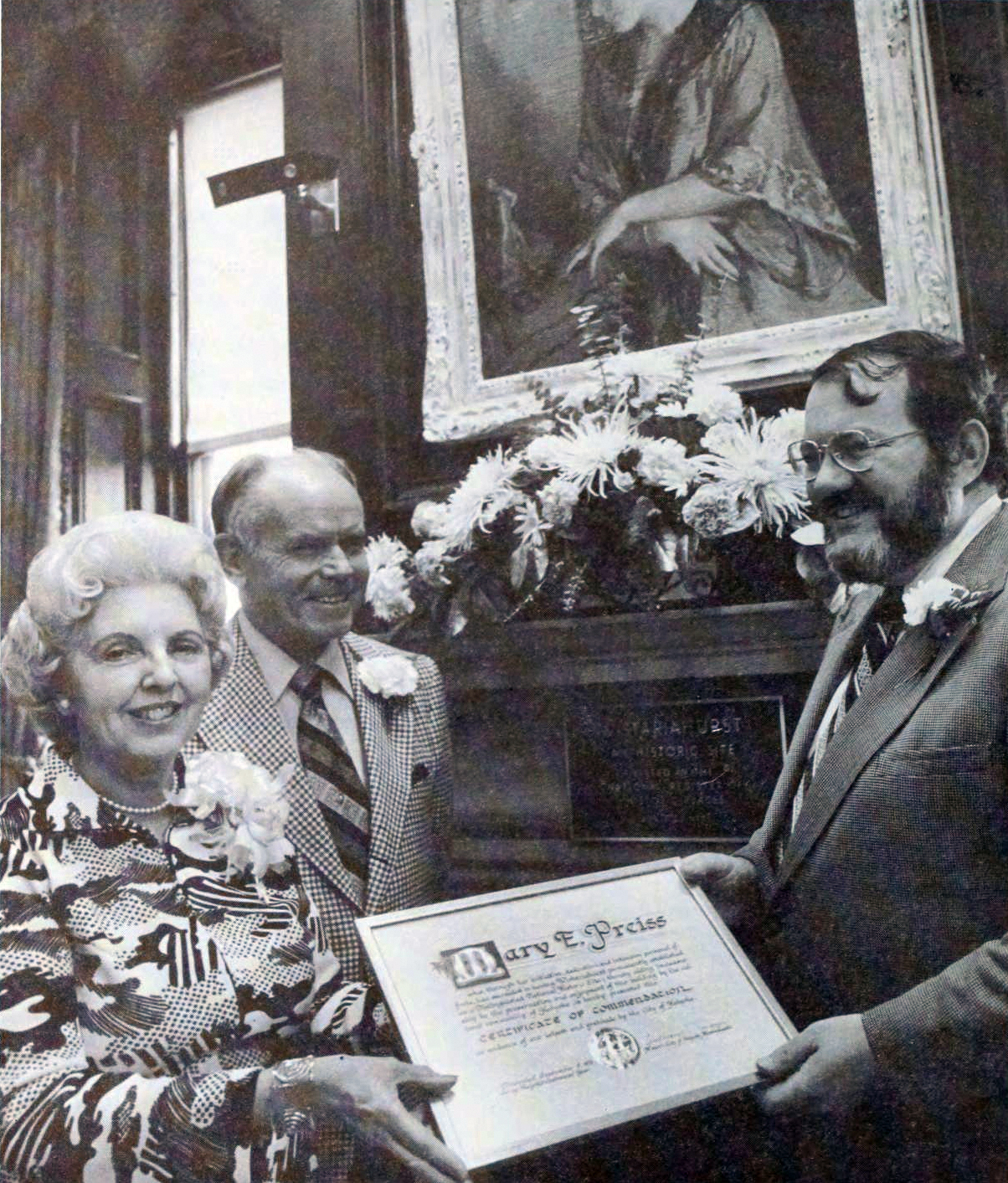 Then-Mayor William Taupier of Holyoke presents Mary E. Preiss a certificate of commendation for her work in getting Wistariahurst listed on the National Register of Historic Places in 1973; the man in the center of the portrait, Edward Moriarty, chairman of the city's centennial steering committee